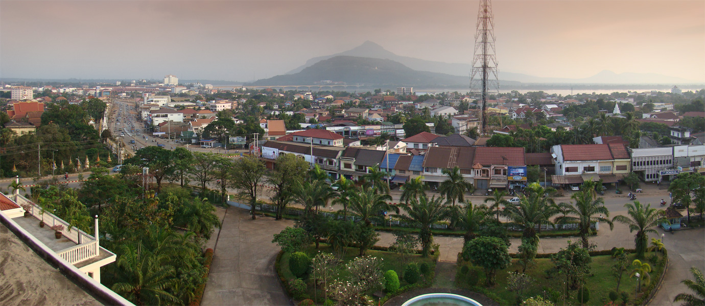 Panoramic view of Pakse from the top of Champasak Palace Hotel, Champasak Province, Laos.